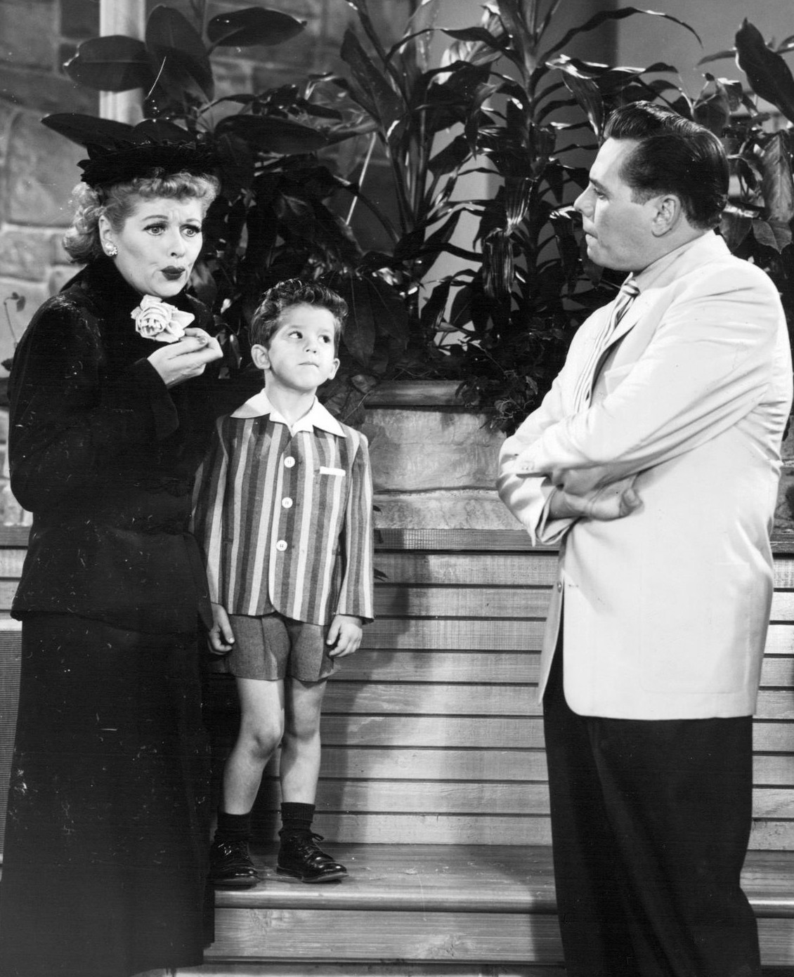 Photo of Lucille Ball, Richard Keith and Desi Arnaz from the television program I Love Lucy. This episode is "Off to Florida". Ethel and Lucy prepare to join husbands Ricky and Fred in Florida when Lucy discovers she's lost their train tickets. Rather than admit the loss to Ricky, the women make arrangements to drive to Florida with a lady they later believe to be an escaped ax murderer. The wives arrive in Florida before the train they're scheduled to be on does and are "caught" by the men when they come to meet the train at the station. The white marks appear to belong in the scene as either confetti or snow.